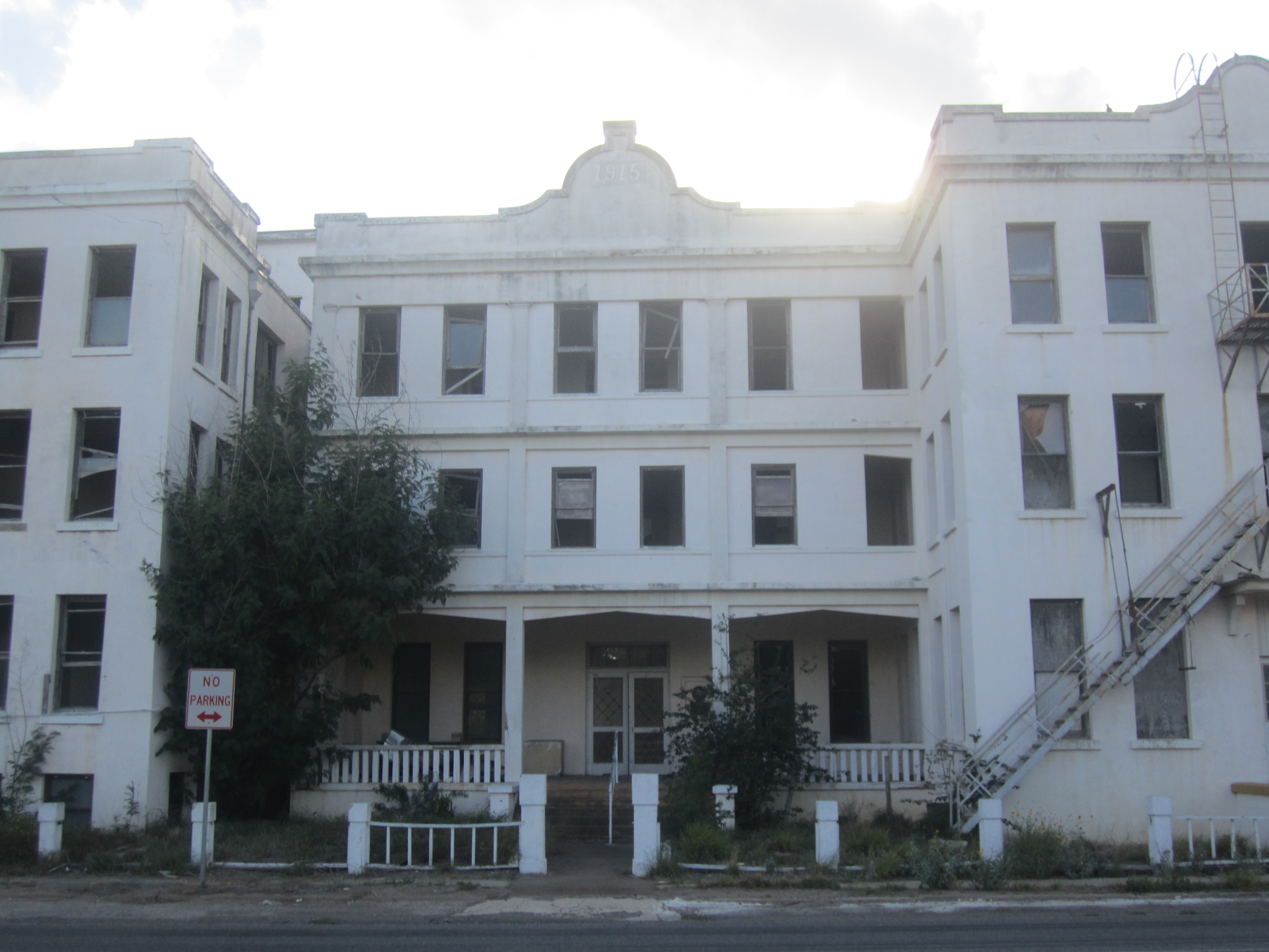 I took photo with Canon camera of abandoned Hotel Viggo across from the Jim Hogg County Courthouse in Hebbronville.